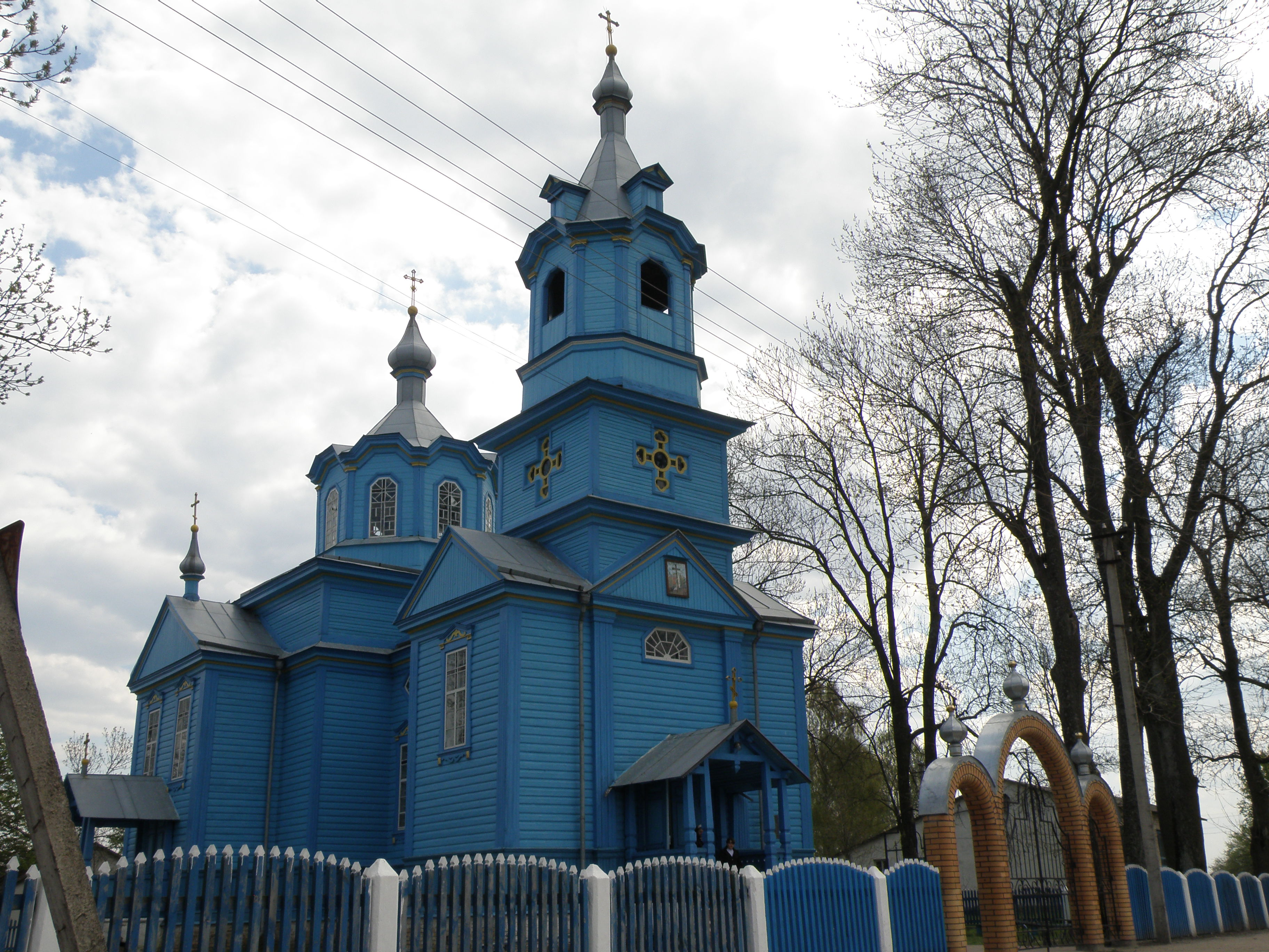 Church in Luchunu village in Volun oblast(Ukraine).